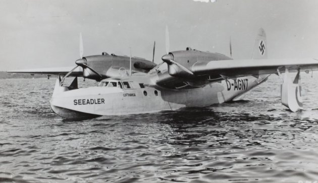 PictionID:38235915 - Catalog:Array - Title:Array - Filename:15_002314.TIF - -------Image from the Charles Daniels Photo Collection.----Album: German Aircraft.-----------PLEASE TAG these images with any information you know about them so that we can permanently store this data with the original image file in our Digital Asset Management System.-----------------SOURCE INSTITUTION: San Diego Air and Space Museum Archive